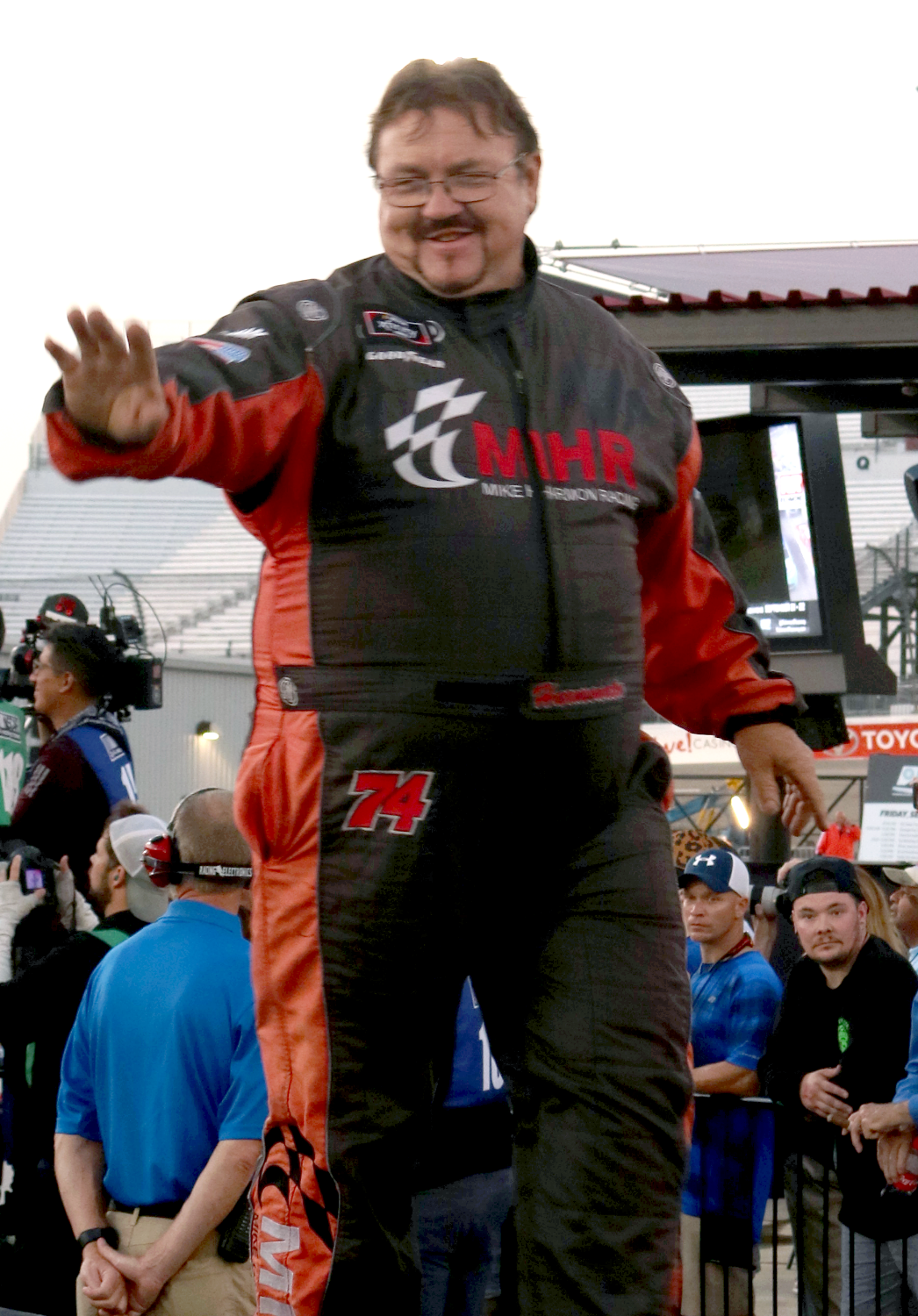 Depicted person: Mike Harmon – American stock car racing driver